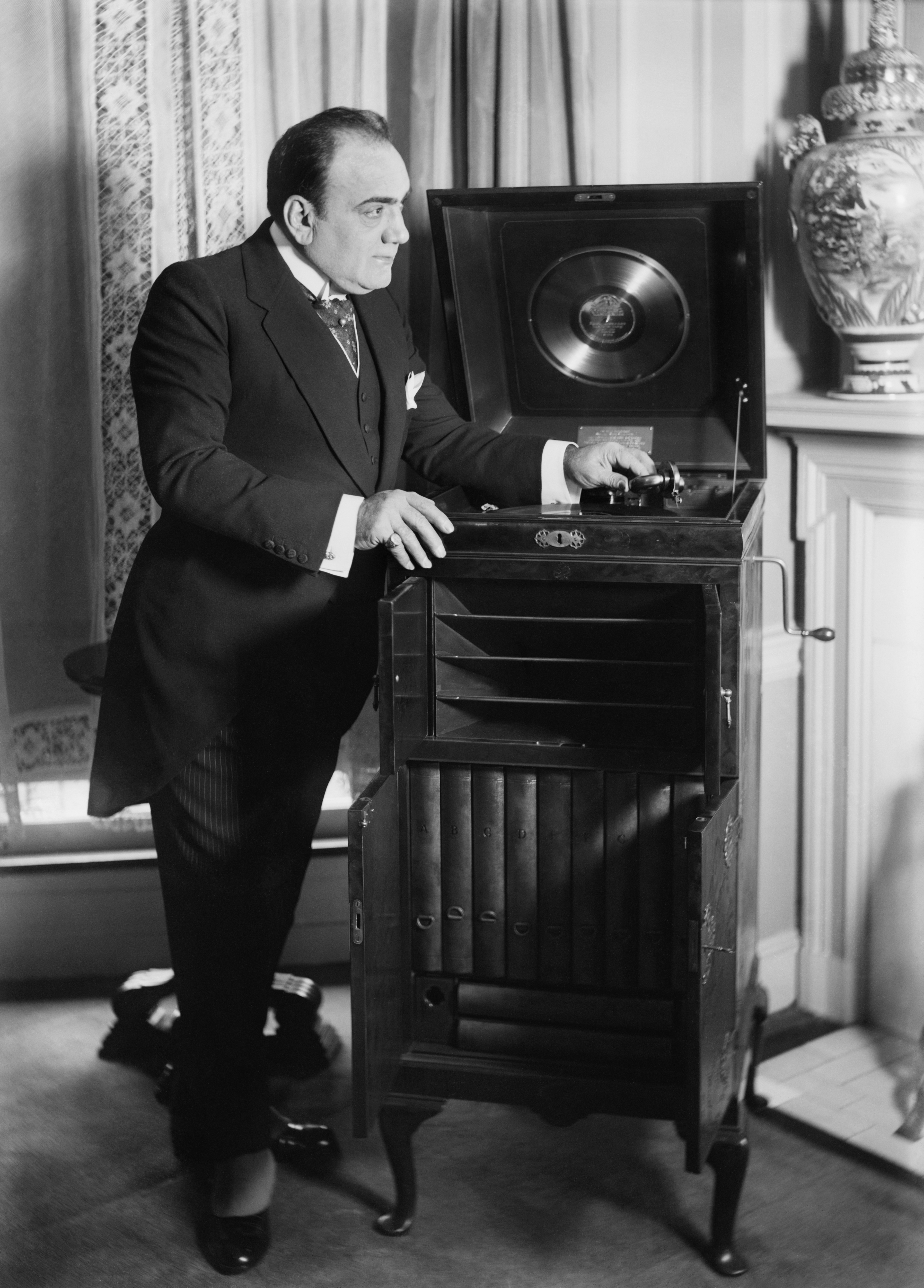 Enrico Caruso with a "Victrola" brand phonograph. Glass negative.